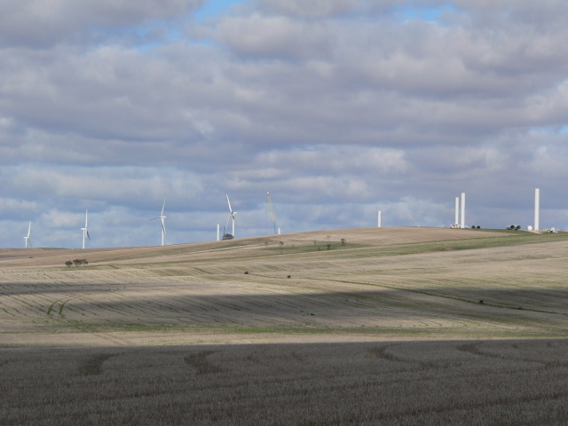 The Clements Gap windfarm when under construction